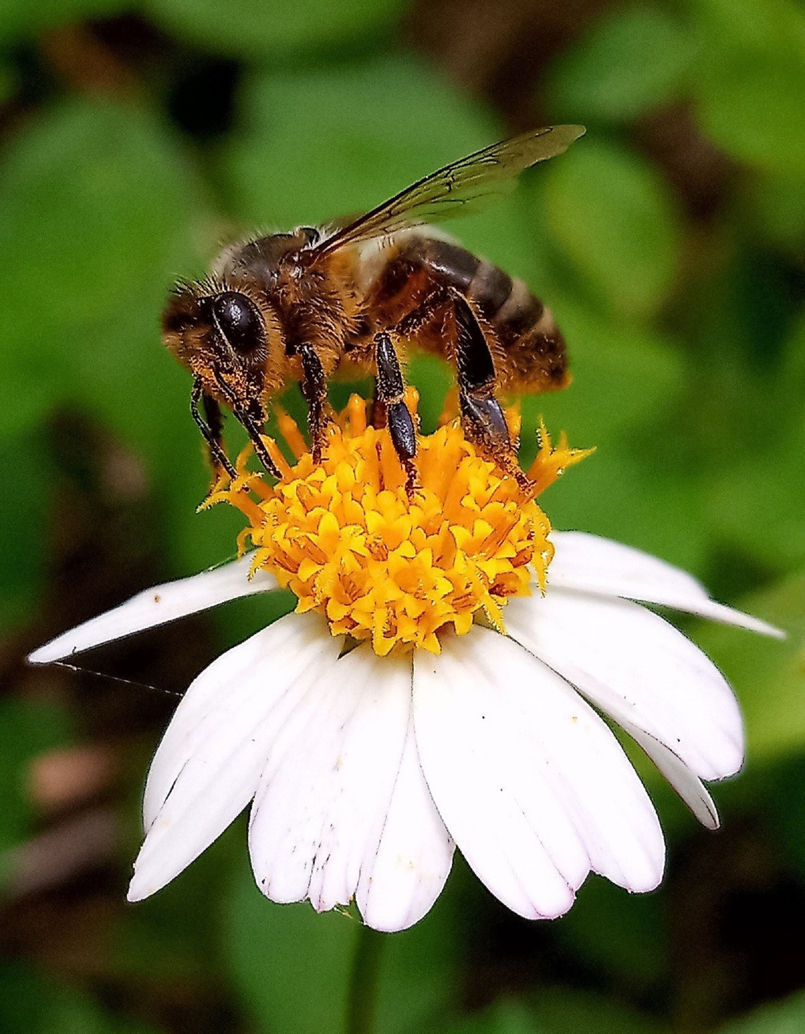 Foraging bee